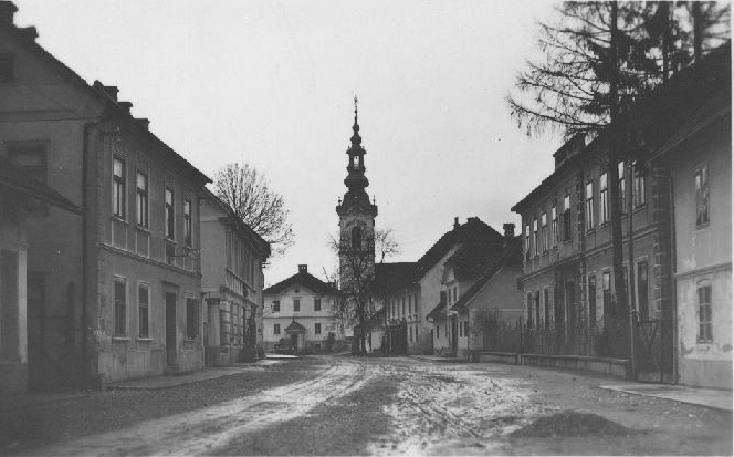 Postcard of Braslovče